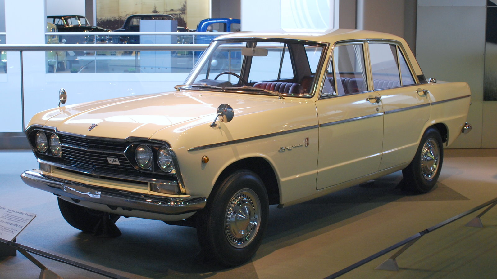 2nd generation Nissan_Prince_Skyline 2000GT-B Model S54(1966/10 - 1968/8)